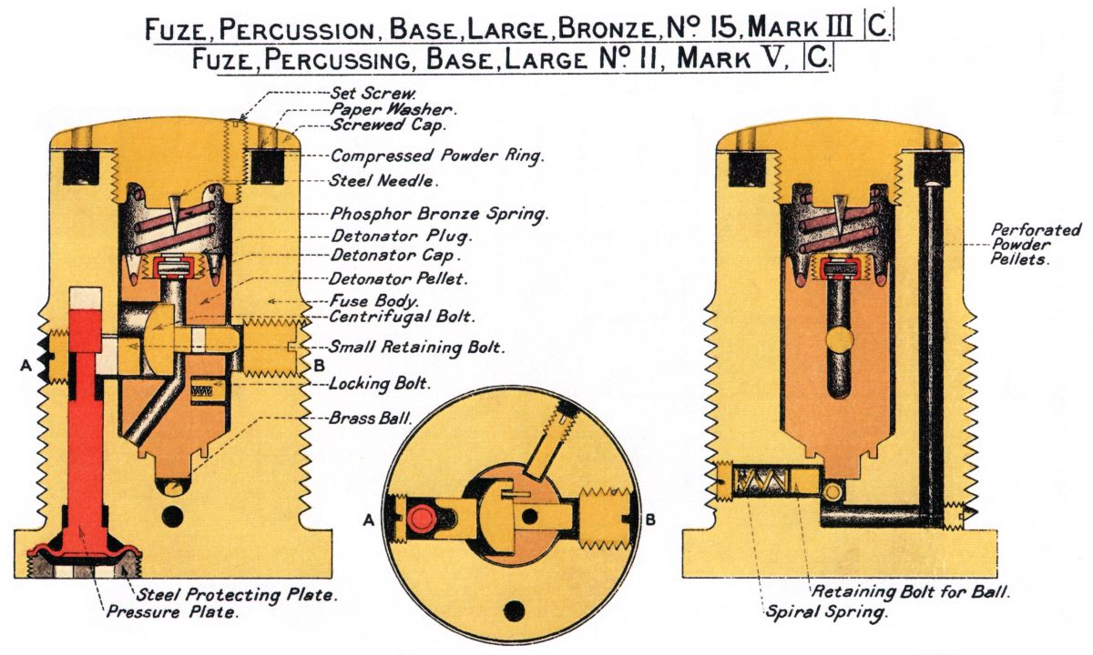 Diagram of British No. 15 Base Percussion Fuze, Large, Mk III. Made of aluminium bronze, and is stronger than the otherwise identical No 11 Mk V, so that there is less chance of the fuze being blown out and failing to cause the shell to burst. For use with all capped A.P. shell and capped common-pointed shell. May be used with uncapped A.P. and uncapped common-pointed shell. This diagram also identifies No 11 Mk V Base Percussion Fuze. It is identical to No 15 Mk III except that the body is made of Class "A" metal. Action : On firing, gas pressure is exerted on the pressure plate at the base, driving up the plunger (coloured red). The plunger while at rest restrains the centrigual bolt (oposite point A), and when the plunger moves up it ceases to restain the centrifugal bolt. The shell's spin causes the centrigal bolt to spin outwards towards point A, pushing the small retaining bolt into the recess in the fuze body opposite point A. This opens up the flash channel through the centre of the fuze, and also frees the bolt from the recess in the fuze body opposite point B. At this point the fuze is armed, and ready to ignite when it strikes a target. When the shell strikes a target, it decelerates and the inertia of the central body, which is now unrestrained, causes it to continue moving forward and impales the detonator cap onto the steel needle. The detonator compound ignites and sends a flash back down through the centre cavity, through a passageway now opened up into the passage (coloured black) filled with perforated powder pellets which leads to the head of the fuze. These pellets burn, providing a time delay allowing the shell to penetrate the target, until the flame reaches the compressed powder ring at the head of the fuze, which is deep inside the shell, and hence ignites the shell's explosive filling.